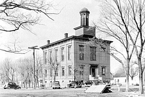 The courthouse in [Old] Shawneetown, Illinois. Lee, Russell, 1903- photographer. CREATED/PUBLISHED 1937 Apr. NOTES Title and other information from caption card. Transfer; United States. Office of War Information. Overseas Picture Division. Washington Division; 1944. SUBJECTS Small towns--Illinois Safety film negatives. United States--Illinois--Gallatin County--Shawneetown. MEDIUM 1 negative : safety ; 5 x 7 inches or smaller. CALL NUMBER LC-USF341- 010673-B REPRODUCTION NUMBER LC-USF341-T-010673-B DLC (interpositive) PART OF Farm Security Administration - Office of War Information Photograph Collection REPOSITORY Library of Congress Prints and Photographs Division Washington, DC 20540 USA